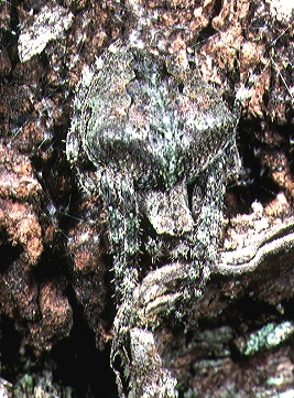 female Araneus ventricosus from Okinawa.